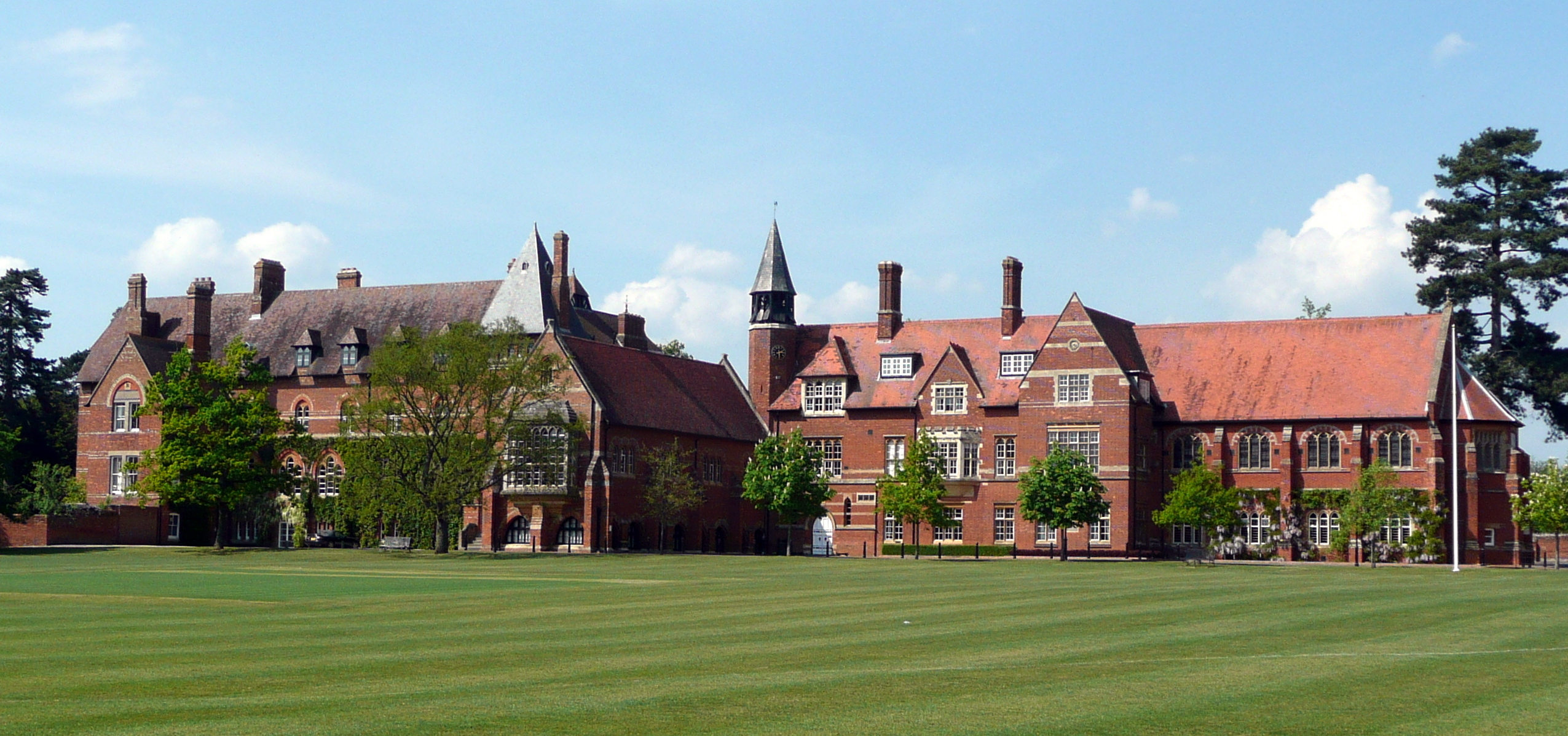 Abingdon School, Park Road, Abingdon. Earliest part, to the left, is by Edwin Dolby and completed 1868-70 with the addition to the right by J G T West and completed in 1901-2 with Chapel and Gymansium at the right.